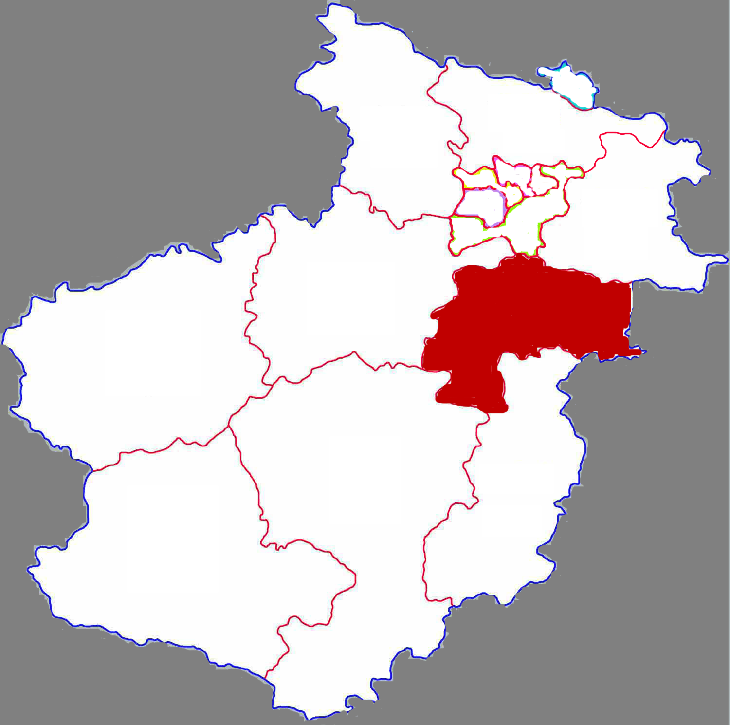 Location of Yichuan county in Luoyang city, China